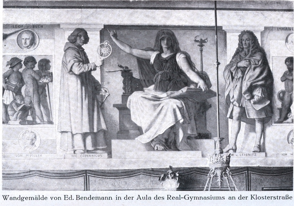 t